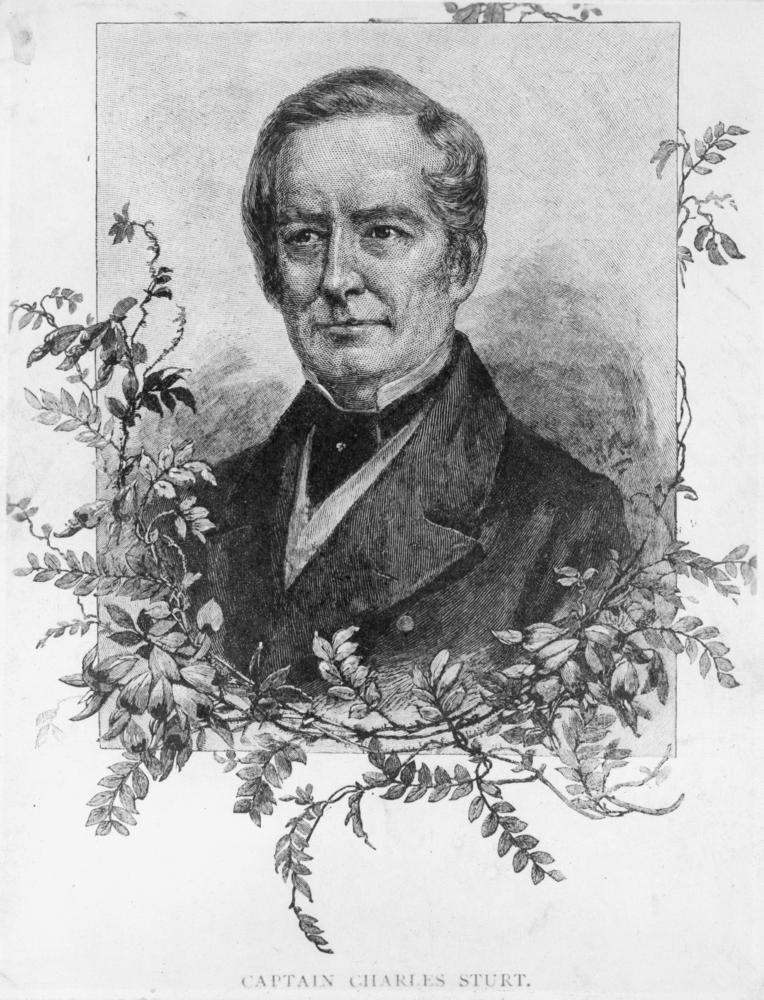 Etching of Captain Charles Sturt. Australian explorer. Sturt was born in British India and sent to England at the age of 5 to be educated. He joined the British Army in 1813, seeing action with the Duke of Wellington in Spain and at Waterloo, rising to the rank of Captain in the 39th (Dorsetshire) Regiment of Foot. With his regiment he escorted convicts to New South Wales and arrived in 1827. He explored the Australian interiors, particularly the rivers flowing westward in New South Wales. In 1829. Sturt then proceeded down the Murray, until he reached the river's confluence with the Darling. Sturt had now proved that all the western-flowing rivers eventually flowed into the Murray. (Information taken from Charles Napier Sturt, retrieved 2 February 2007 from